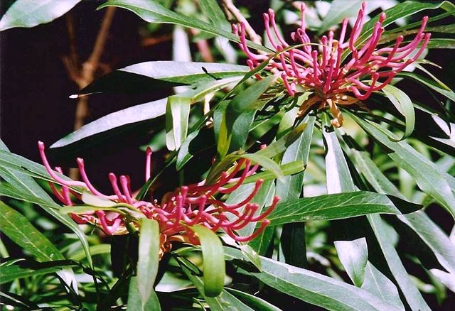 Telopea mongaensis at Monga National Park